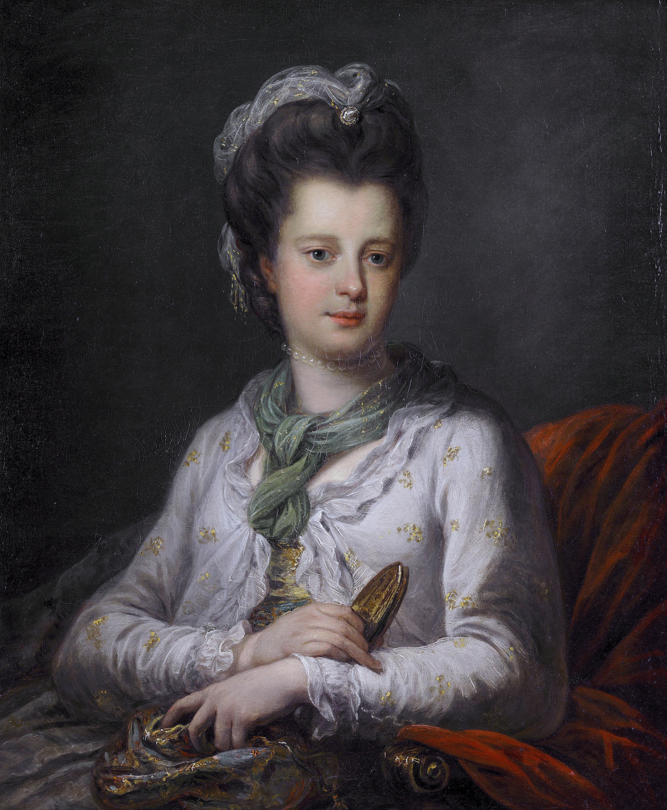 Elizabeth Kerr, née Fortescue, Marchioness of Lothian oil on canvas 77.3 x 64 cm